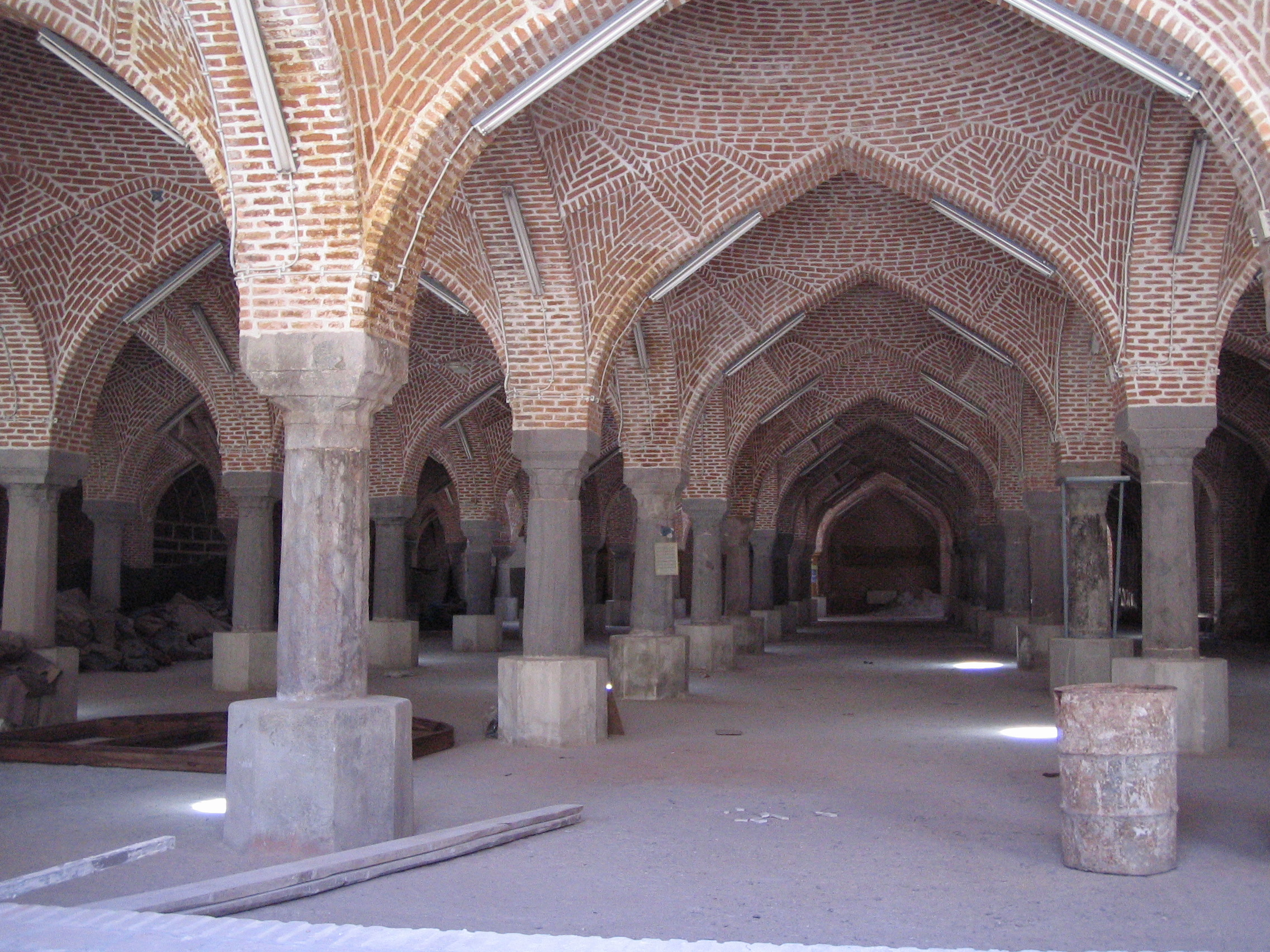 Old Shabestan under restauration in Masjed-e Jomeh, Iran.